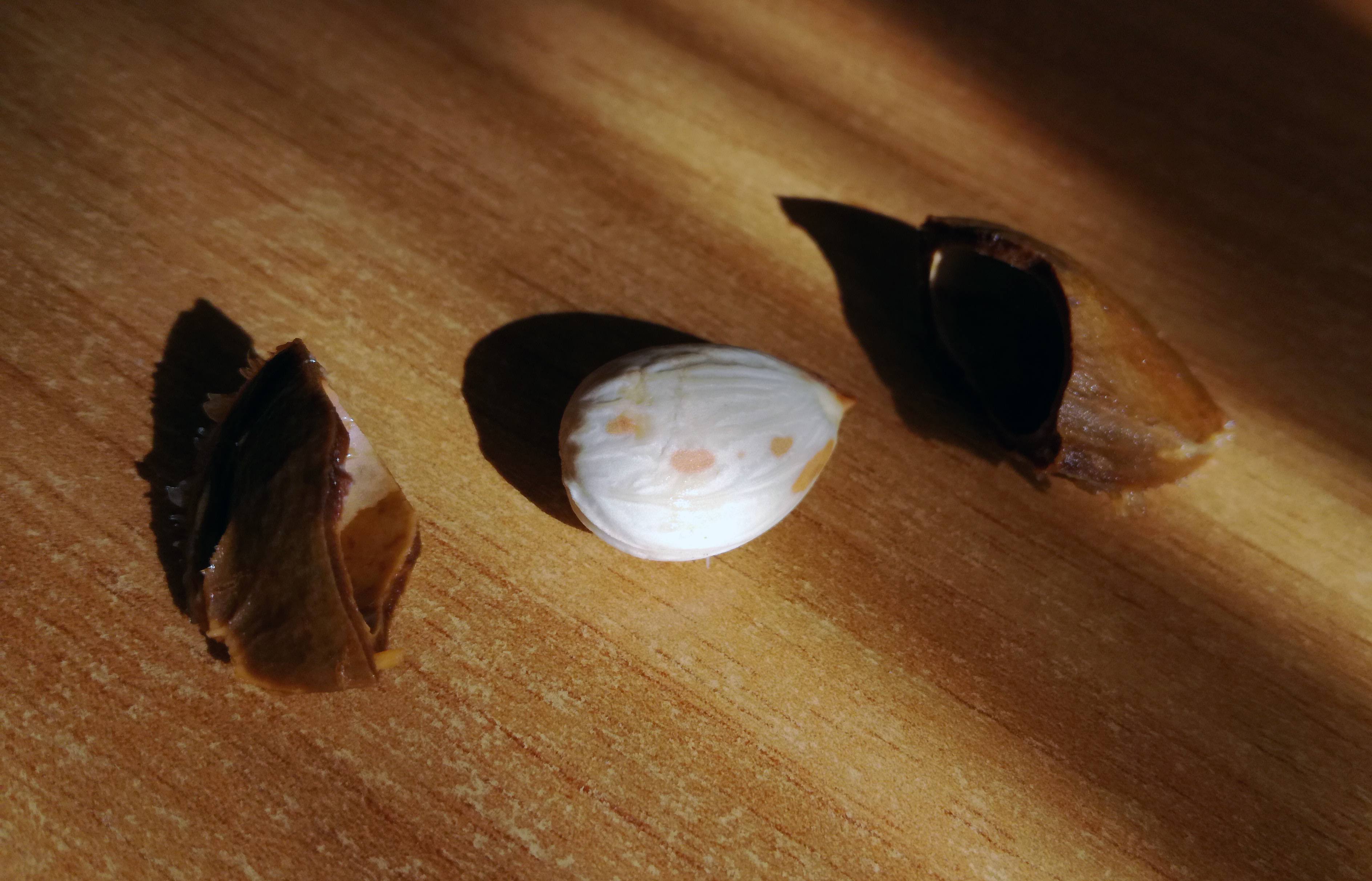 Apricot kernel (endocarp + seed)